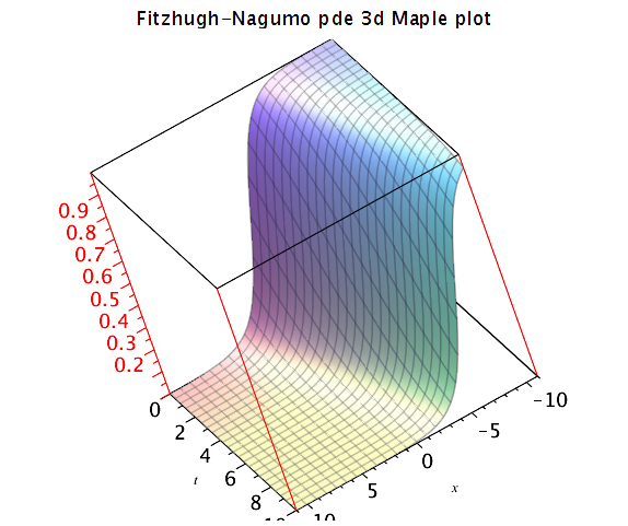 Fitzhugh-Nagumo pde Maple 3d plot